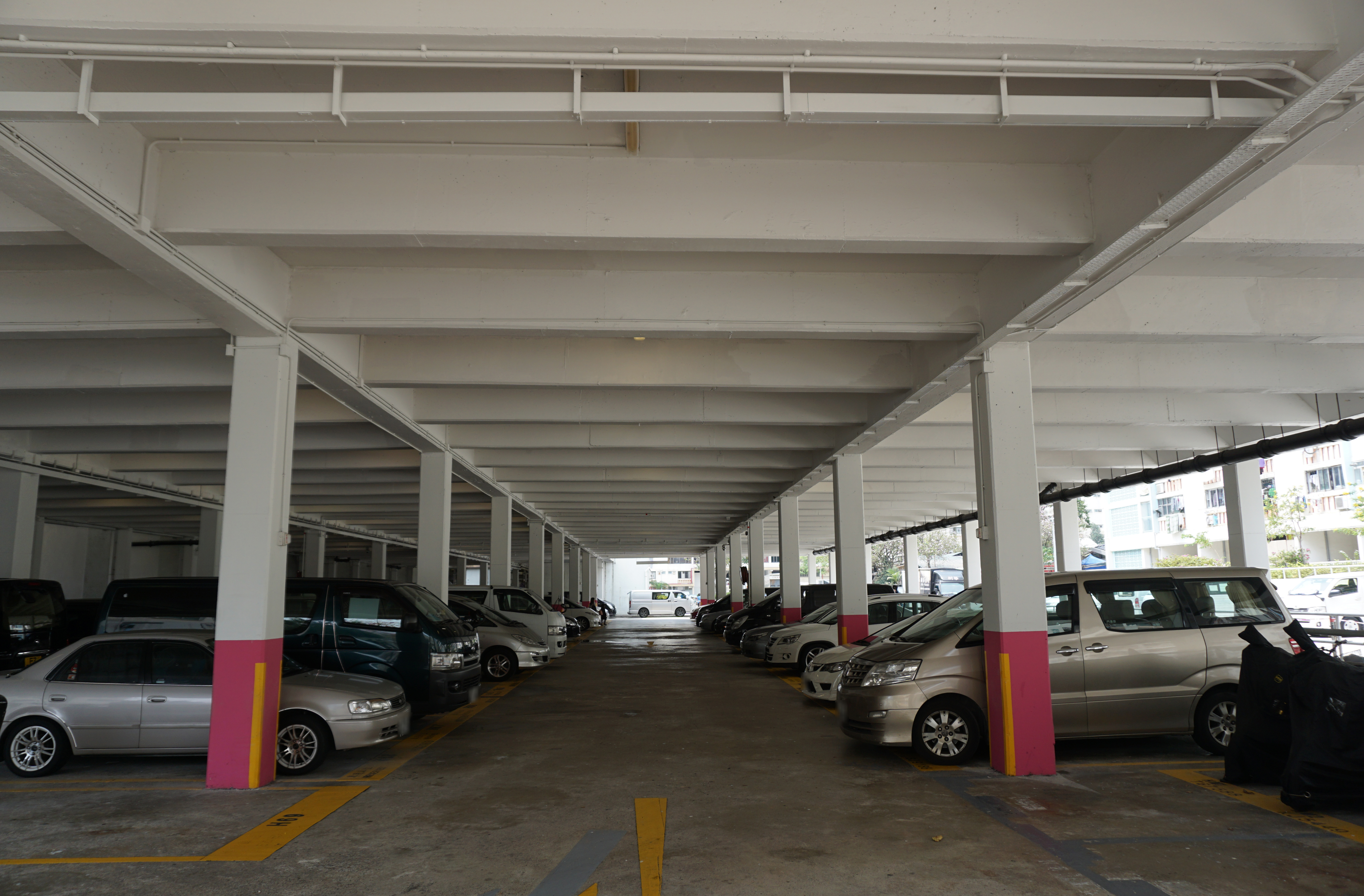 Wo Che Car Park in Shatin, Hong Kong.